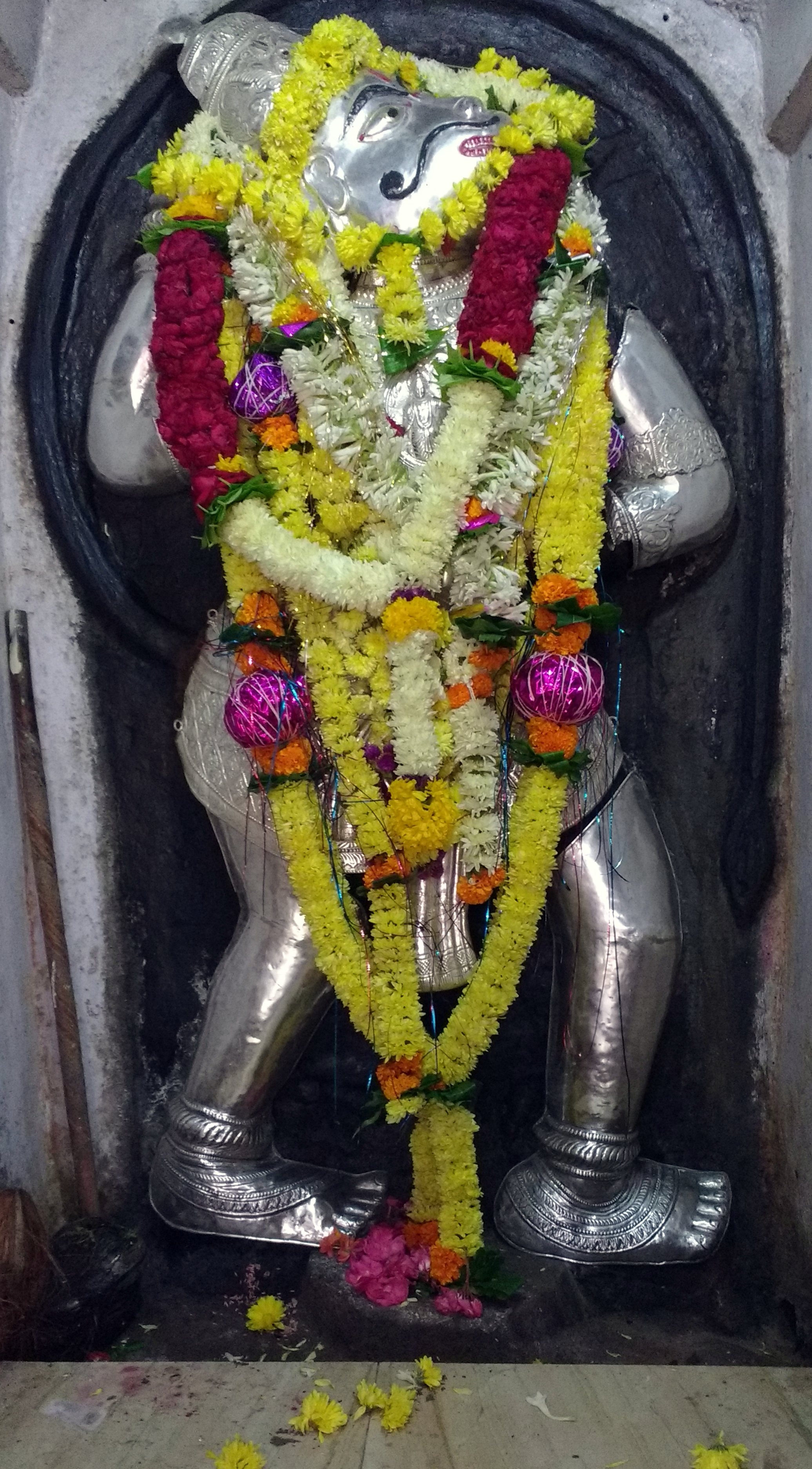 Picture of lord Korwareshwara during festival season.